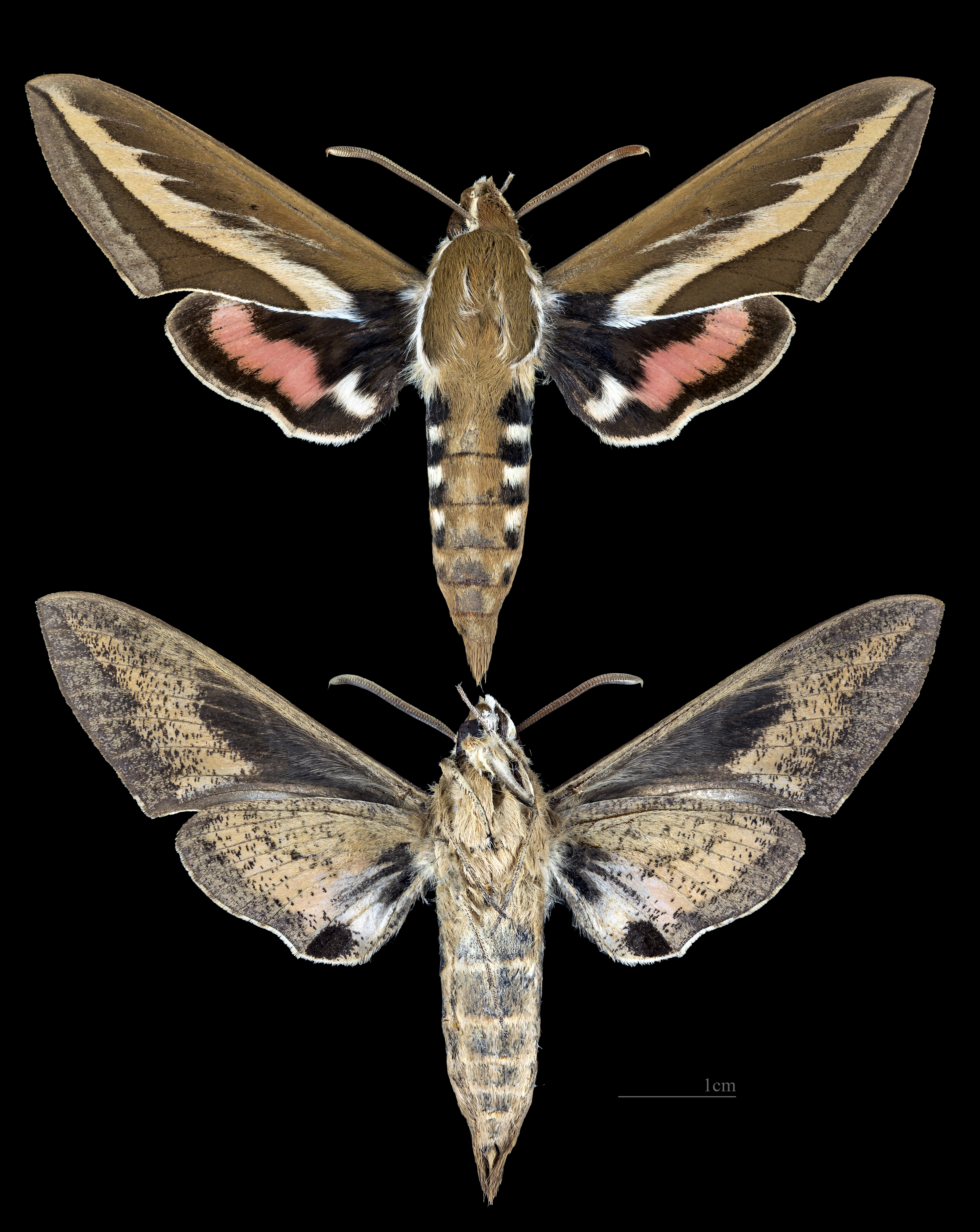 Hyles euphorbiarum - Two views of same specimen Collection of the Mathematician Laurent Schwartz